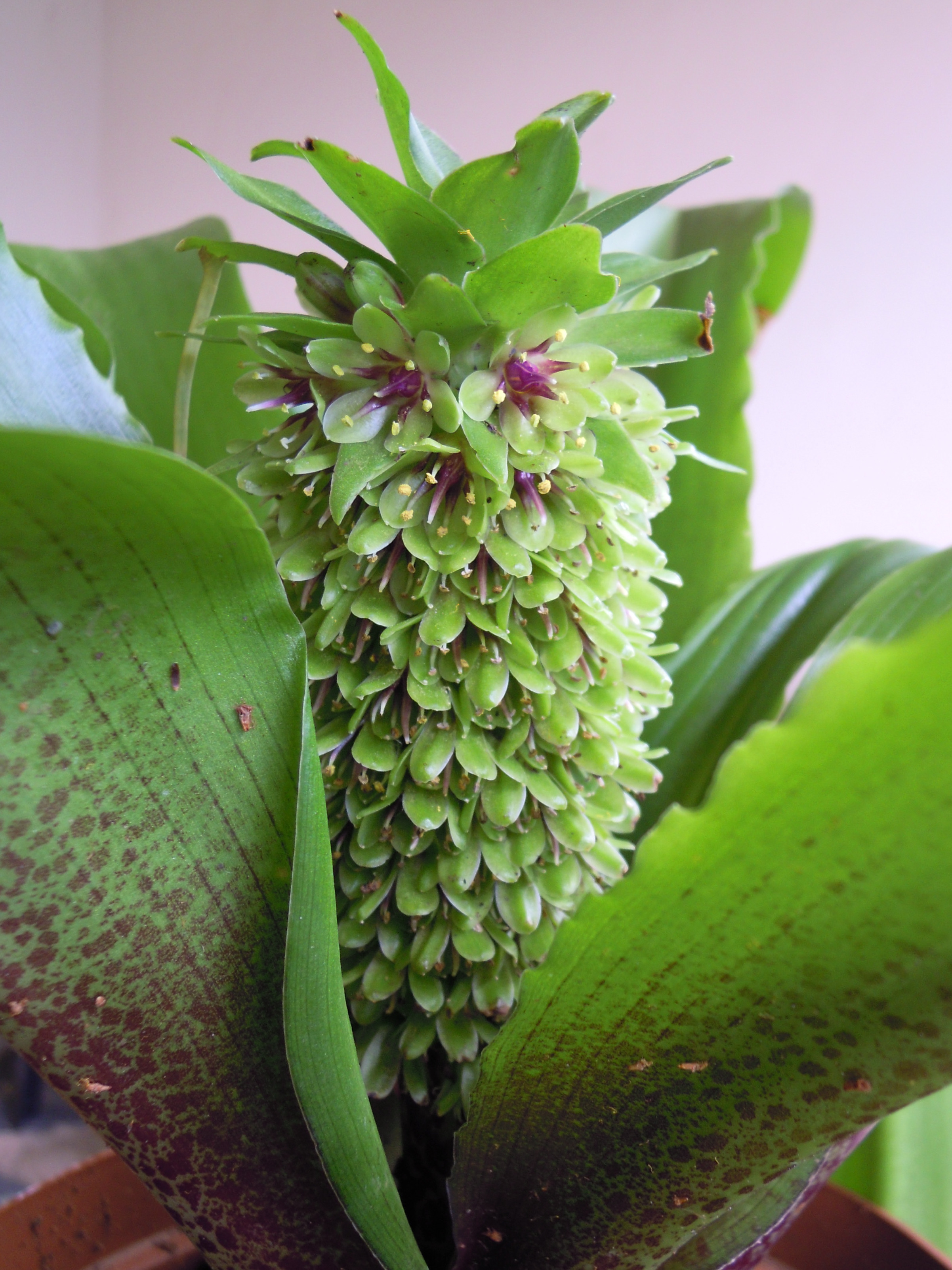 Eucomis montana is a bulbous plant endemic to Mpumalanga, South Africa. Its common name is pineapple flower because of the look of the inflorescence.